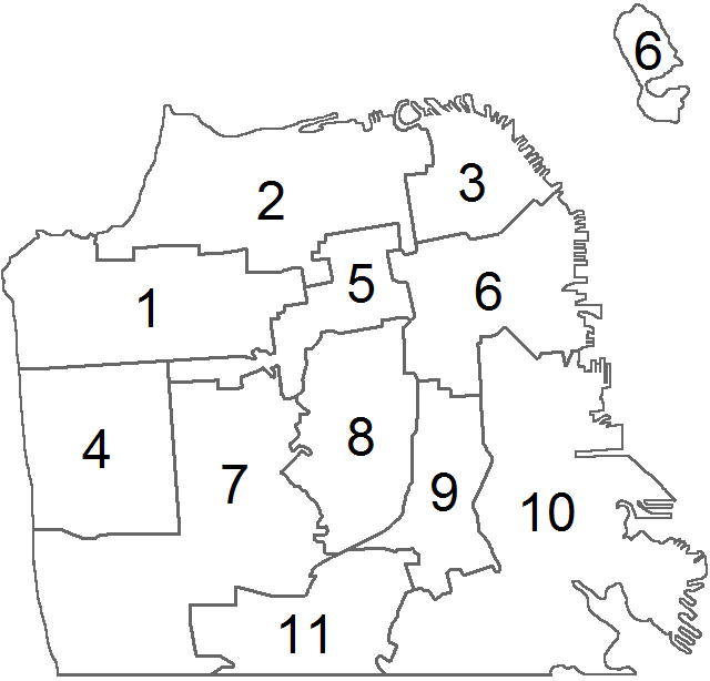 San Francisco Board of Supervisors districts